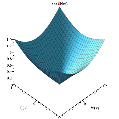 Shi(x) abs complex 3D plot